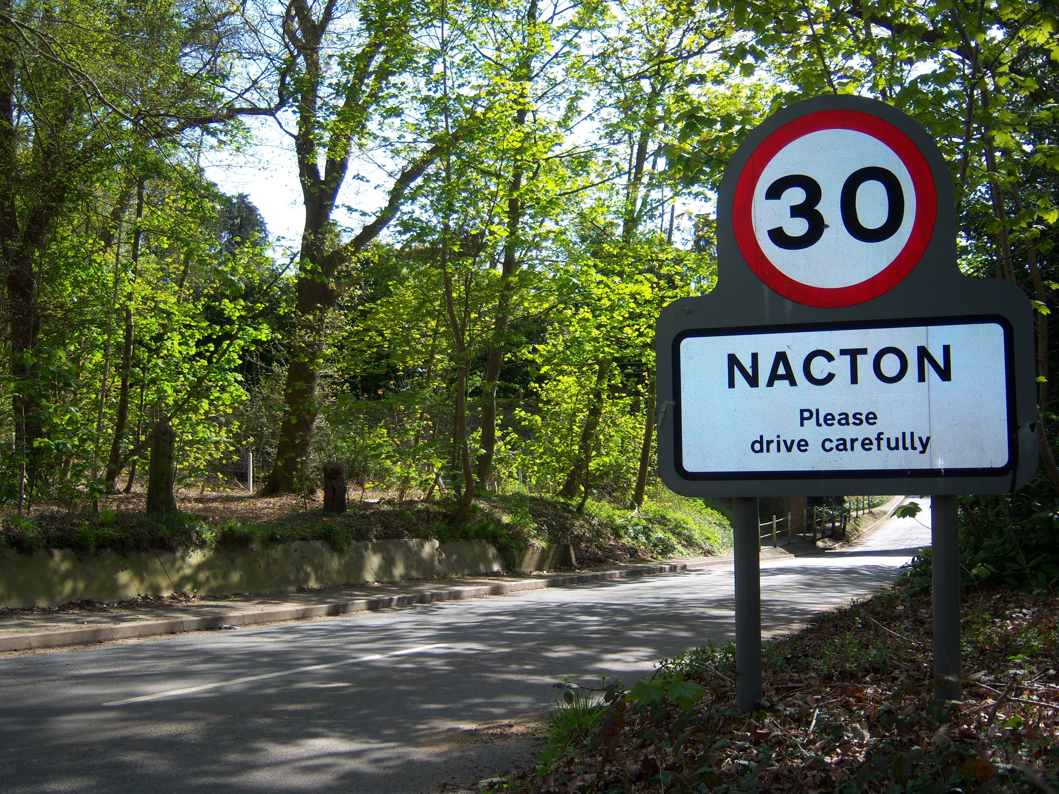 Nacton Village Road sign